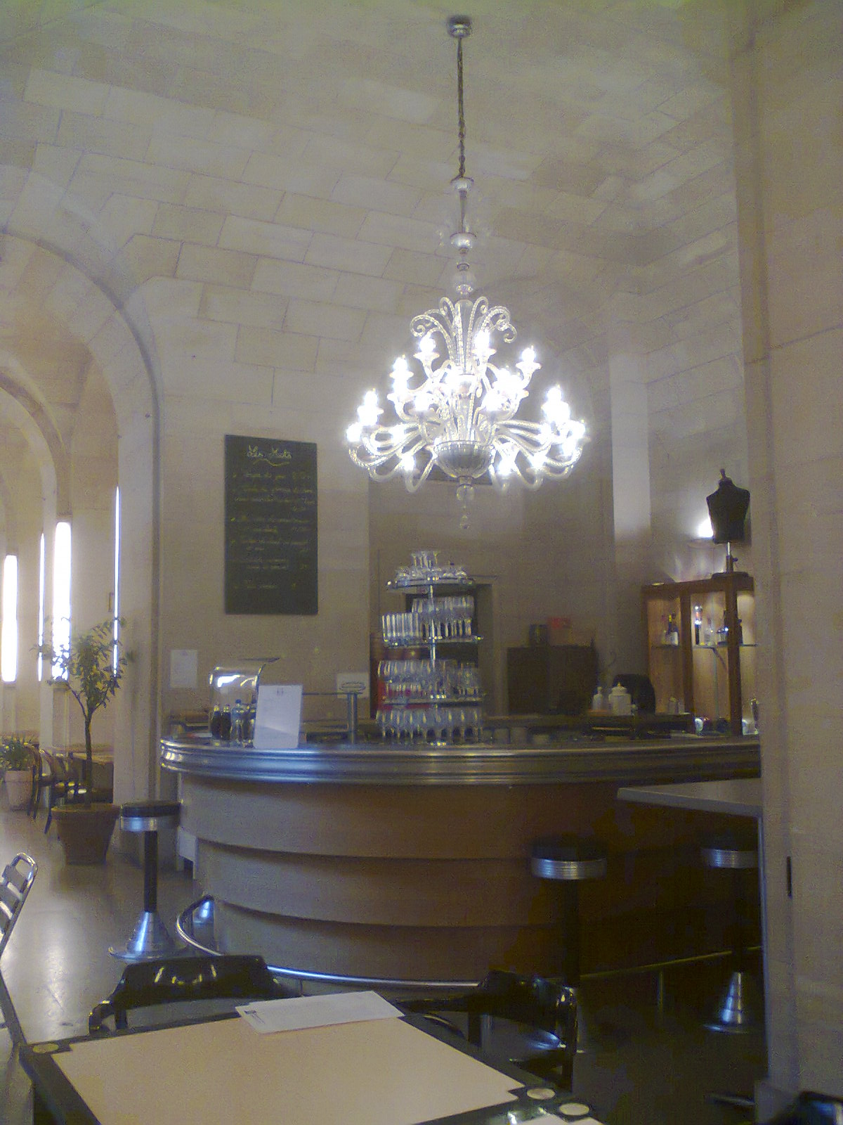 Musée des beaux arts genève